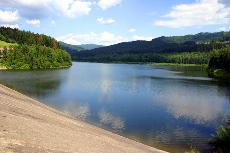 Wisla in Beskid Śląski (Poland)